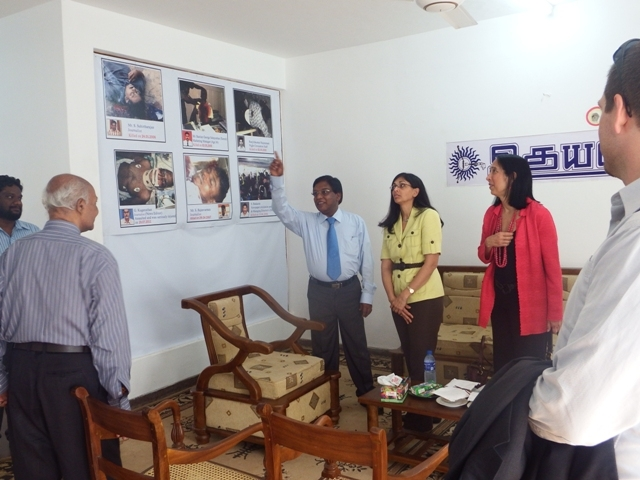 Nisha Desai Biswal, Assistant Secretary of State for South and Central Asian Affairs in the United States Department of State and Michele J. Sison, US ambassador to Sri Lanka are looking at the portraits of slain staff of the Uthayan newspaper while E. Saravanapavan, Managing Director of the newspaper explaining something at the newspaper's office in Jaffna on 1 February 2014. One of the bullet holes is visible on the wall behind them.